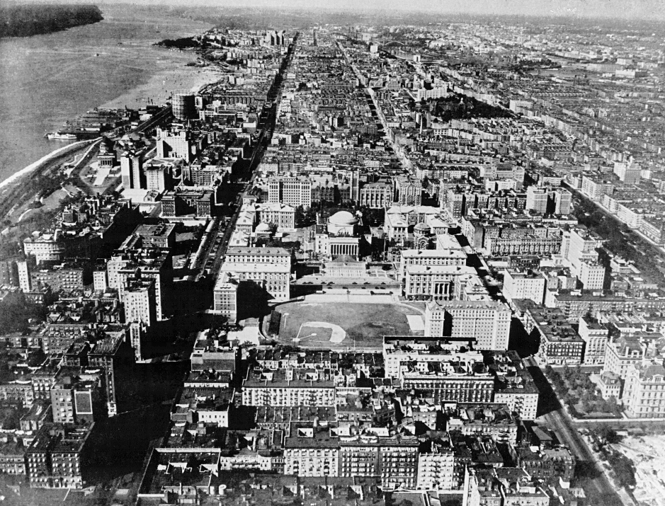 Manhattan, Columbia University area and north